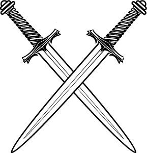 Symbol of a Knight of St Paul (masonic).